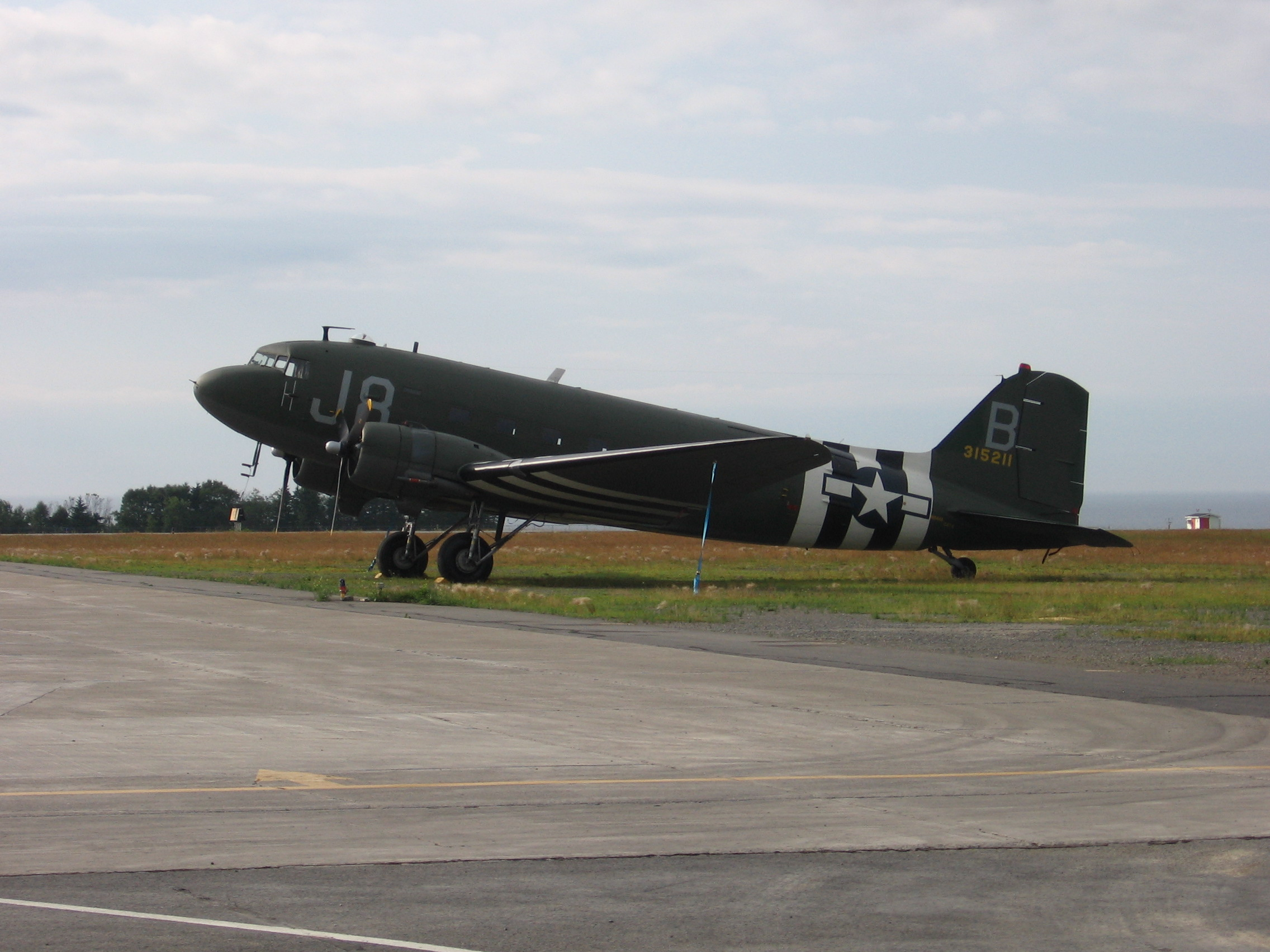 World War 2 airplane